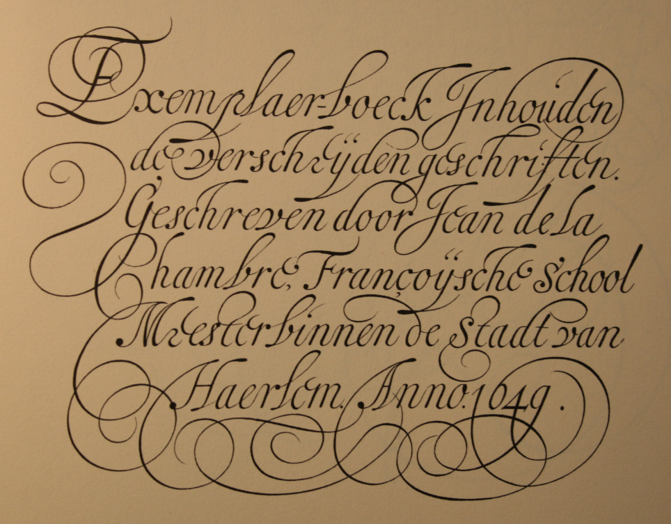 Jean de La Chambre, Exemplaer-boeck, 1649.